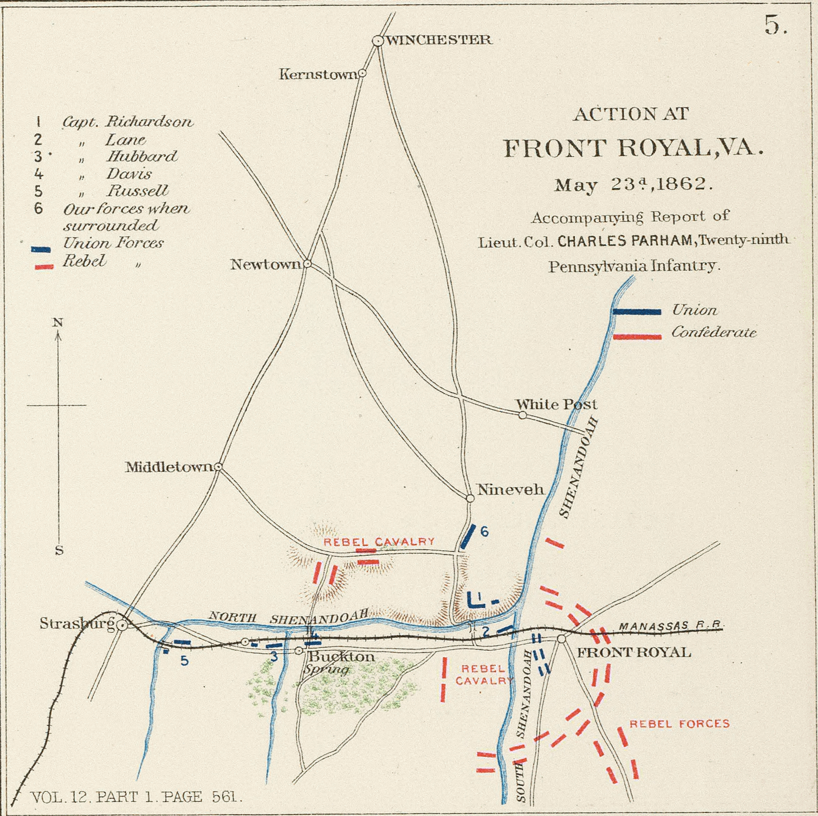 Action at Front Royal, Va., May 23d. 1862. Accompanying Report of Lieut. Col. Charles Parham, Twenty-ninth Pennsylvania Infantry.